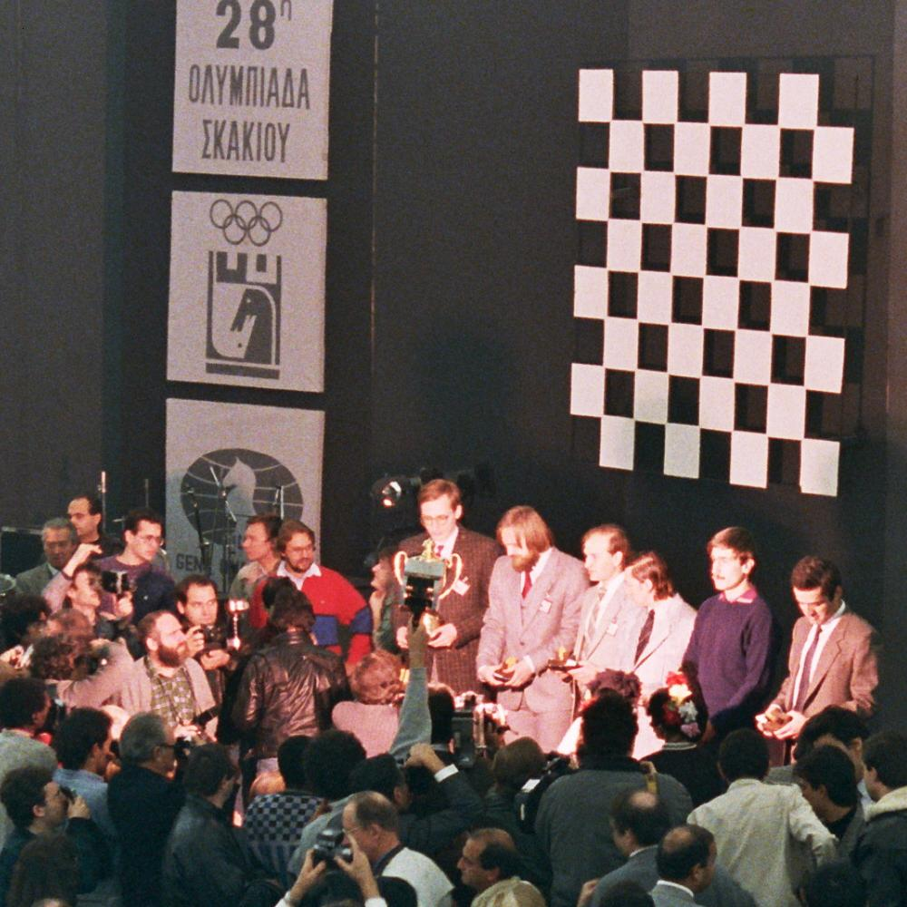 honour of the champion Soviet Union, Chess Olympiad 1988 in Thessaloniki, Photographer Gerhard Hund.